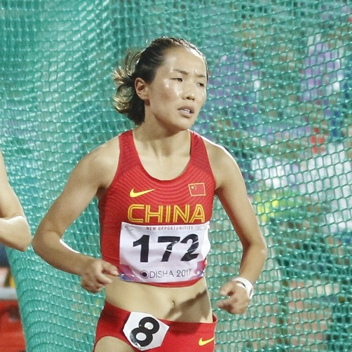 2017 Asian Athletics Championships at the Kalinga Stadium in Bhubaneswar, India. 1 Alia Mohammed 741 UNITED ARAB EMIRATES 2 Meenu . 252 INDIA 3 Daria Maslova 538 KYRGHIZSTAN 4 Mizuki Matsuda 408 JAPAN 5 L. Suriya 297 INDIA 6 Yuka Hori 394 JAPAN 7 Sanjivani Jadhav 267 INDIA 8 He Yinli 172 CHINA